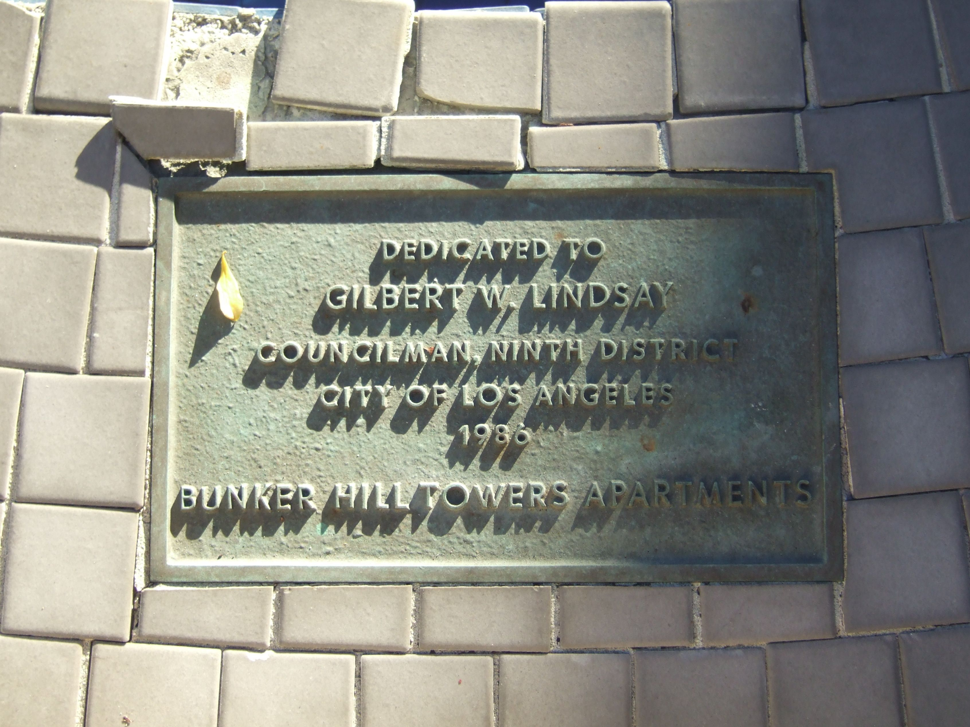 I took this photo myself at Bunker Hill Towers in Los Angeles. The plaque is attached to a fountain honoring City Council Member Gilbert Lindsay.